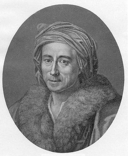 Johann Joachim Winckelmann